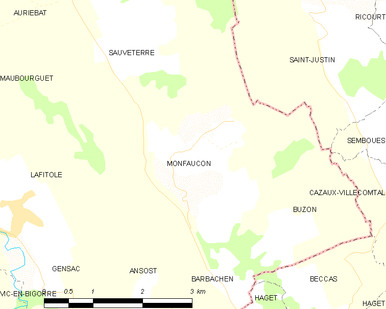 Map of French municipality